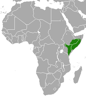 Ethiopian Dwarf Mongoose (Helogale hirtula) range